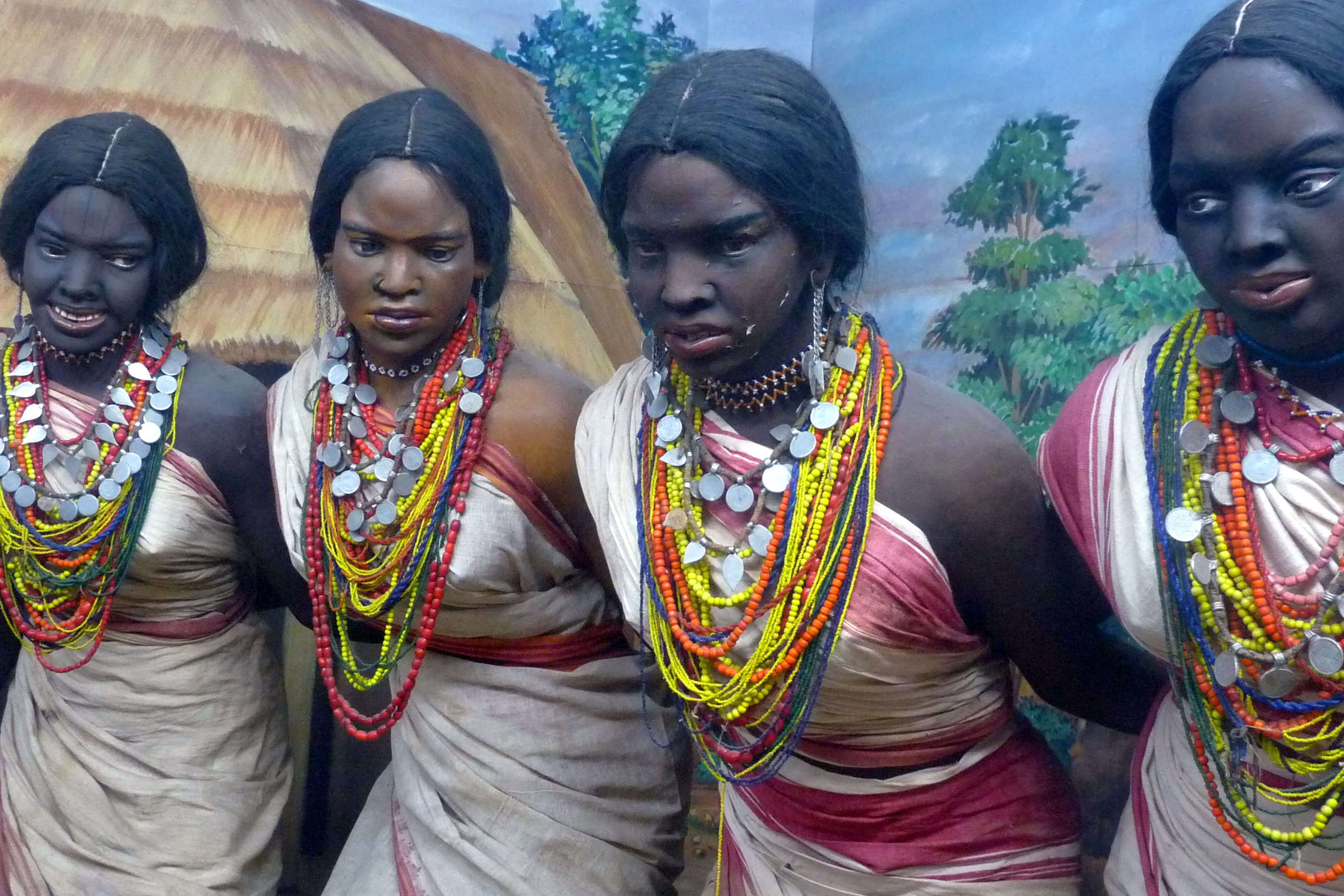 Orissan tribal people in wax, Orissa State Museum, Bhubaneswar